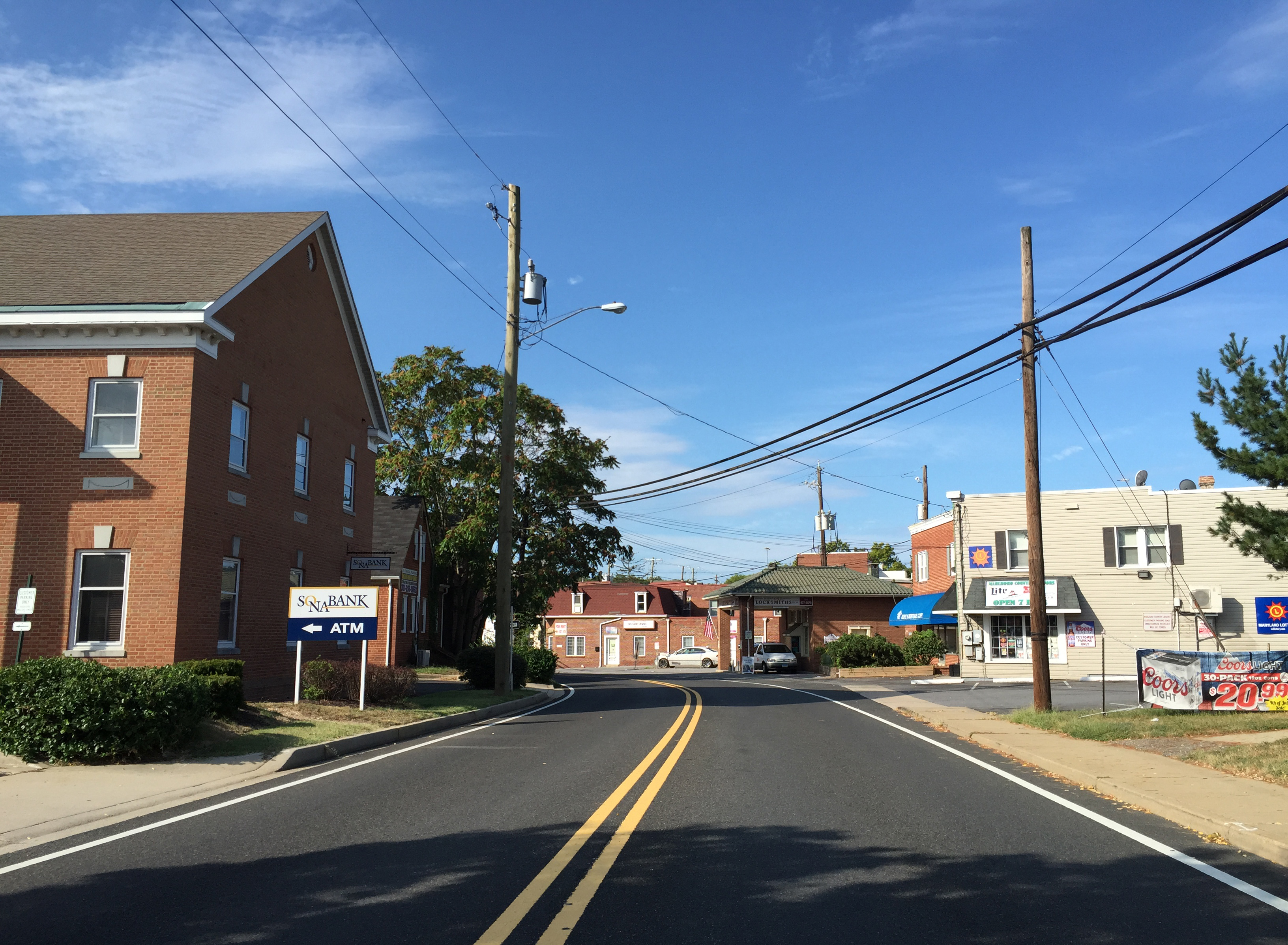 View west along Maryland State Route 725 (Main Street) at Pratt Street in Upper Marlboro, Prince Georges County, Maryland